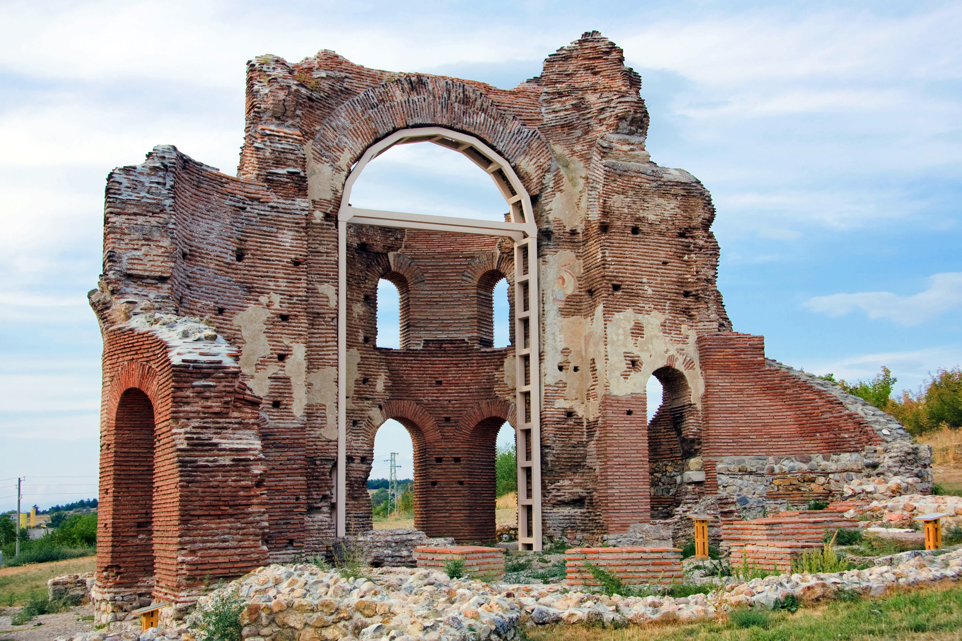 Red Church, near Plovdiv, Bulgaria 2013